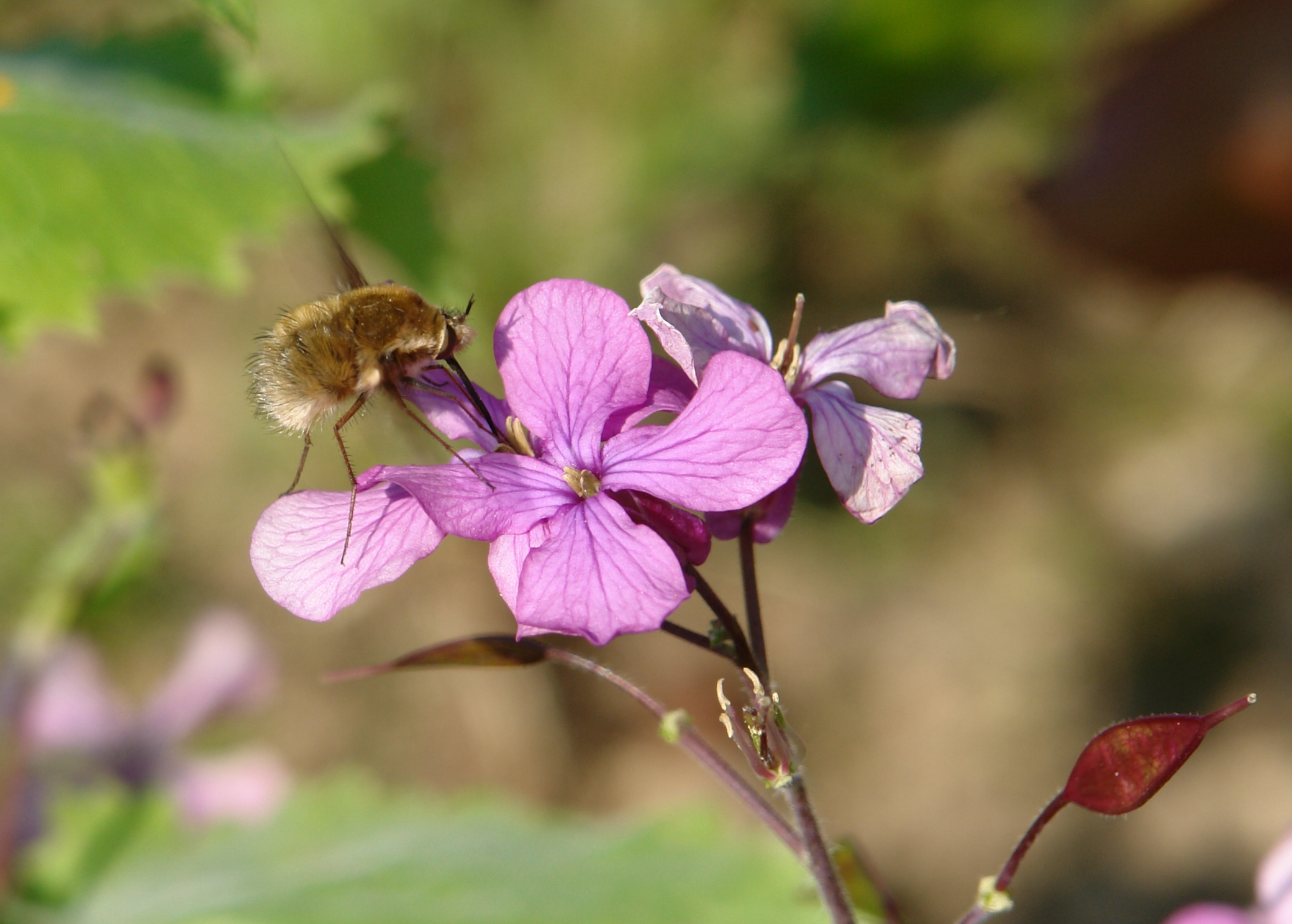 Bee fly (Bombylius major) gathering nectar on a pink flower.